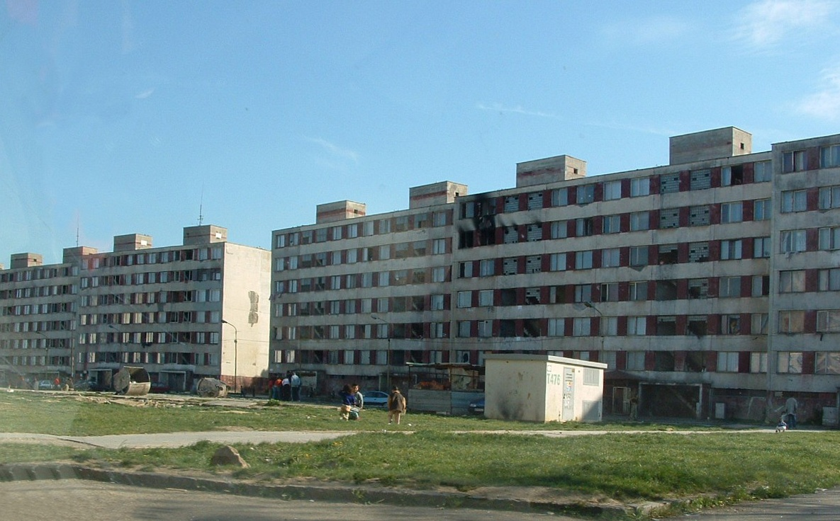 Typical building in the borough of Luník IX, Košice, Slovakia